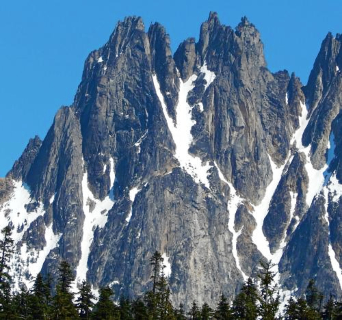 Wine Spires of Silver Star Mountain in Washington states North Cascades mountains. Annotated.